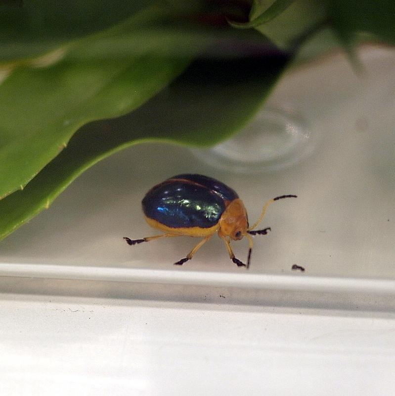 Oides bowringii